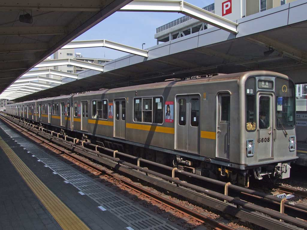 Nagoya Subway 5000 series set 5108 at Fujigaoka Station on the Higashiyama Line